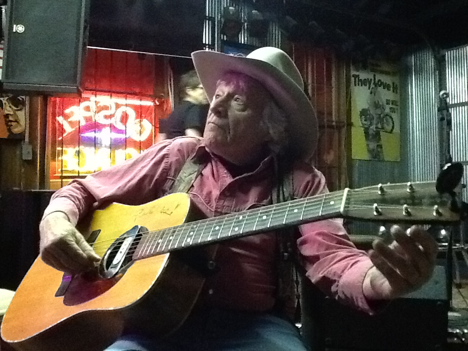 Ramblin' Jack Elliott at Knuckleheads Saloon's Gospel Lounge in Kansas City, Missouri on May 3, 2013.